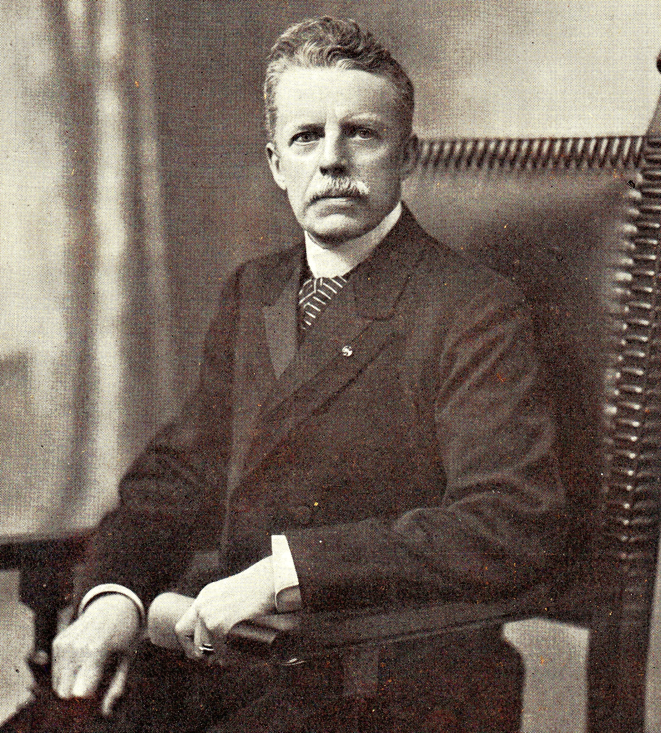 Jhr. Mr. S. Laman Trip